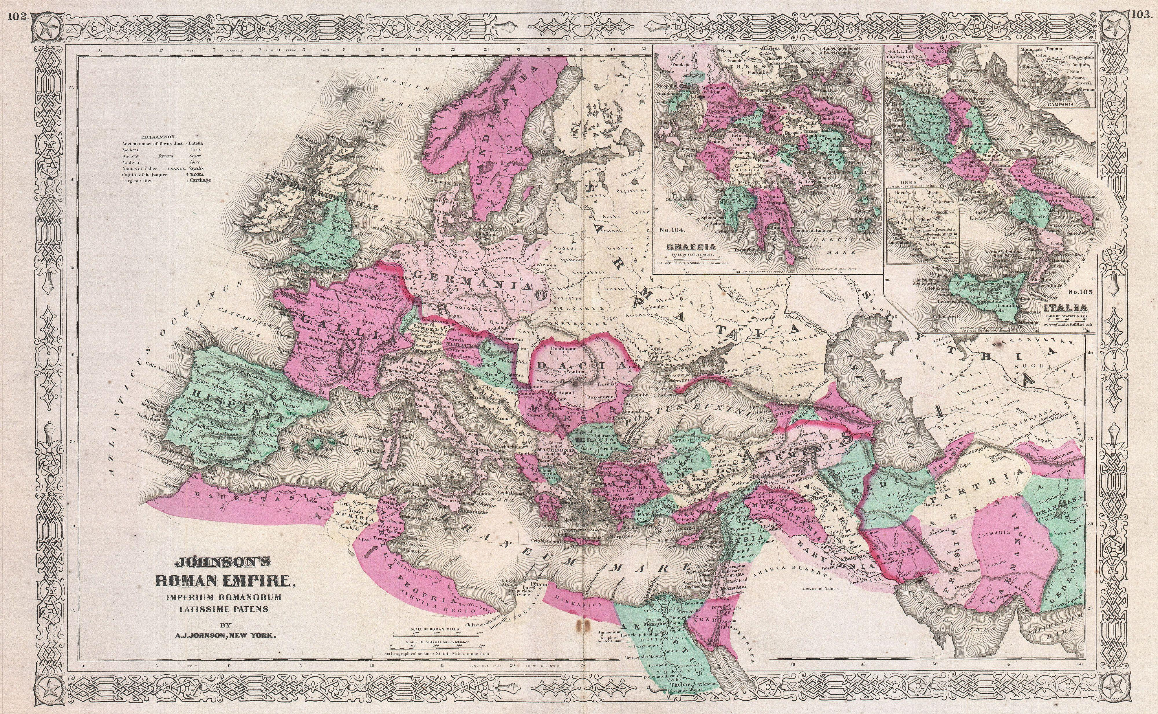 This is A. J. Johnson’s c. 1864 map of the Roman Empire. Depicts the whole of Europe as well as parts of North Africa, Asia and Persia. Inset maps in the upper right quadrant detail Greece and the Italian Peninsula. Features the Grecian style border common to Johnson’s atlas work from 1864 to 1869. Prepared by A. J. Johnson for publication as plates no. 102 and 103 in the 1864 edition of his New Illustrated Atlas… .